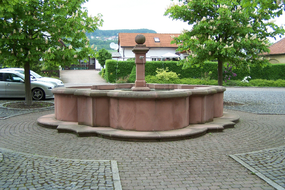 The renovaited fountain.